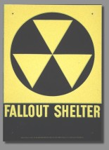 Signs used to mark emergency shelters for nuclear and chemical warfare fallout in the United States.